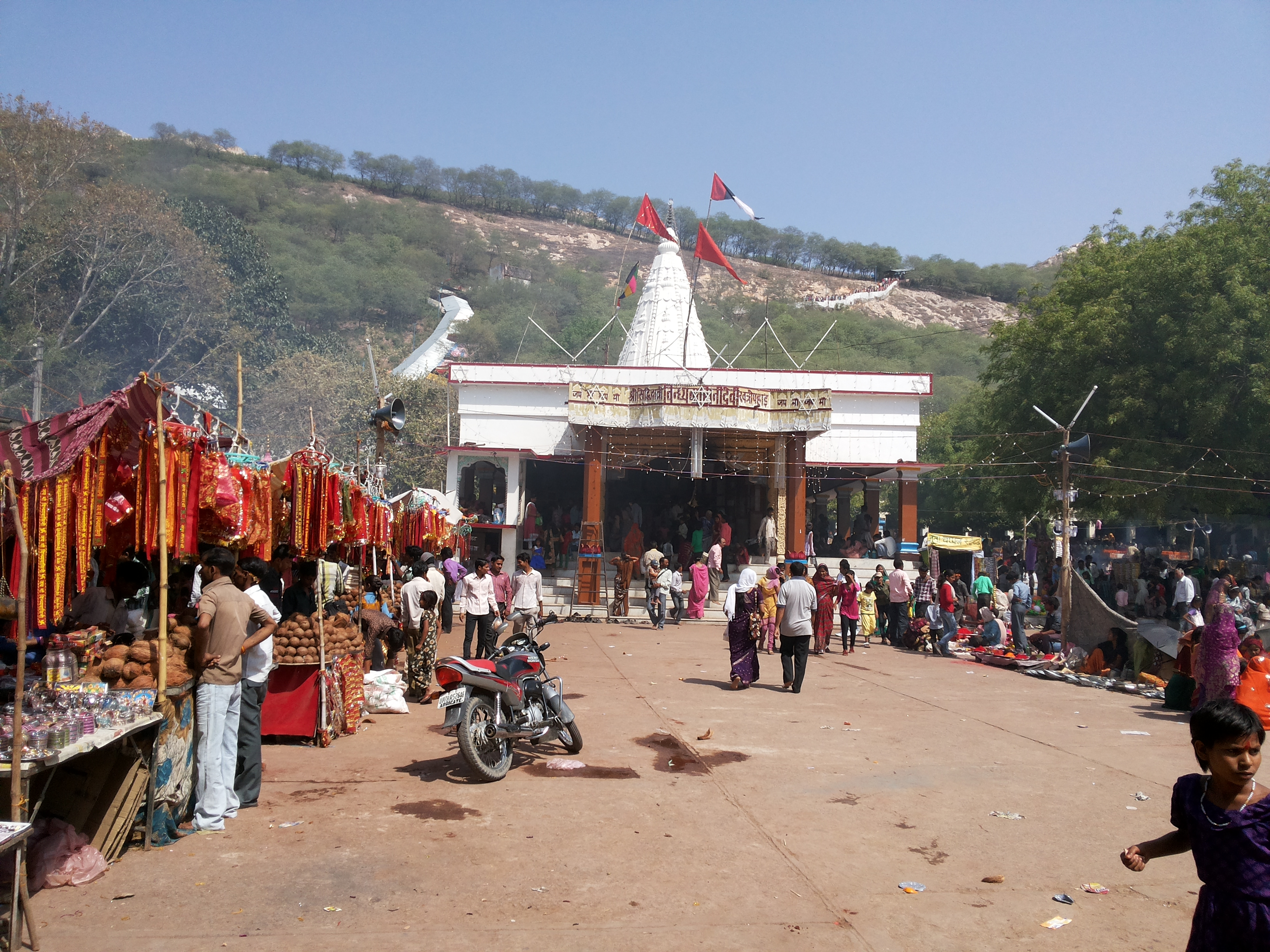 The temple is located in Shydha, a small village approx 24 km from Banda city, Uttar Pradesh. On the top of the hill called "Khatri Pahar" there is a small temple dedicated to goddess Angleshwari.